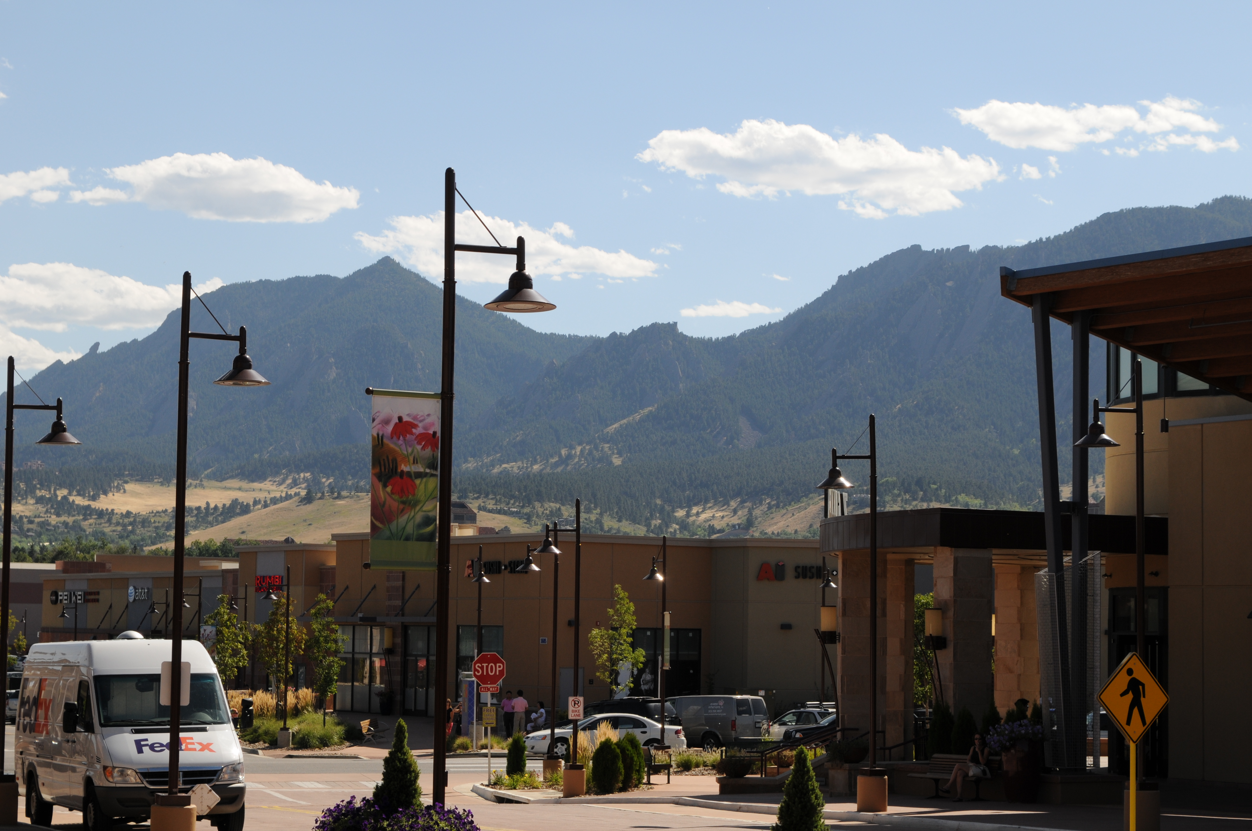 Boulder, Colorado.